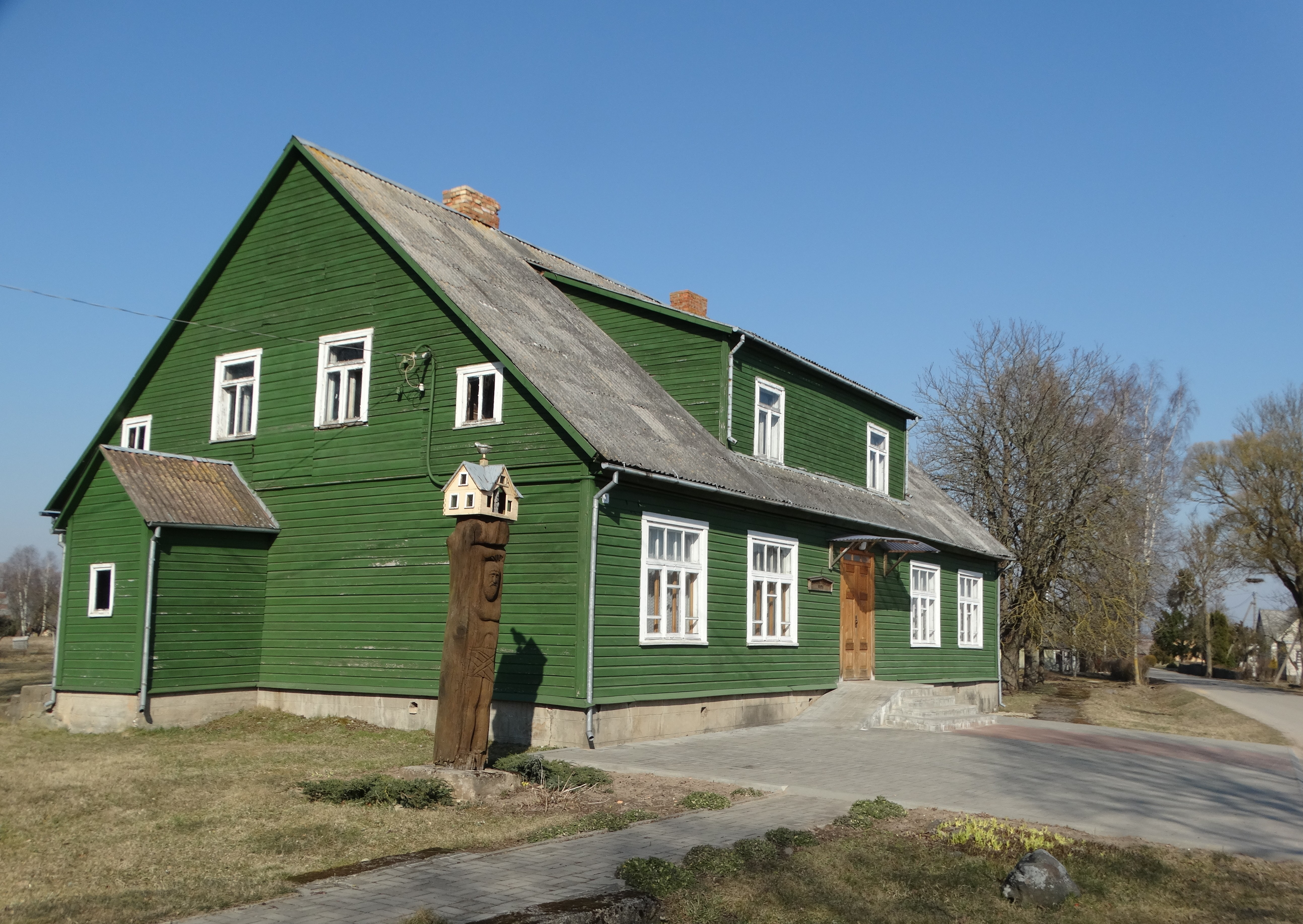 Raudėnai, Šiauliai district, Lithuania